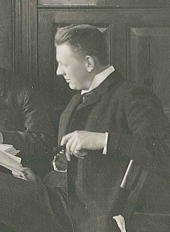 Yngve Schaar (1881-1962), Swedish jurist and Chief Constable of the police in Malmö 1918-46. Detail of a photo showing a young Schaar and others as members of the committee behind Lundakarnevalen 1904 (the students' carnival in Lund of 1904).